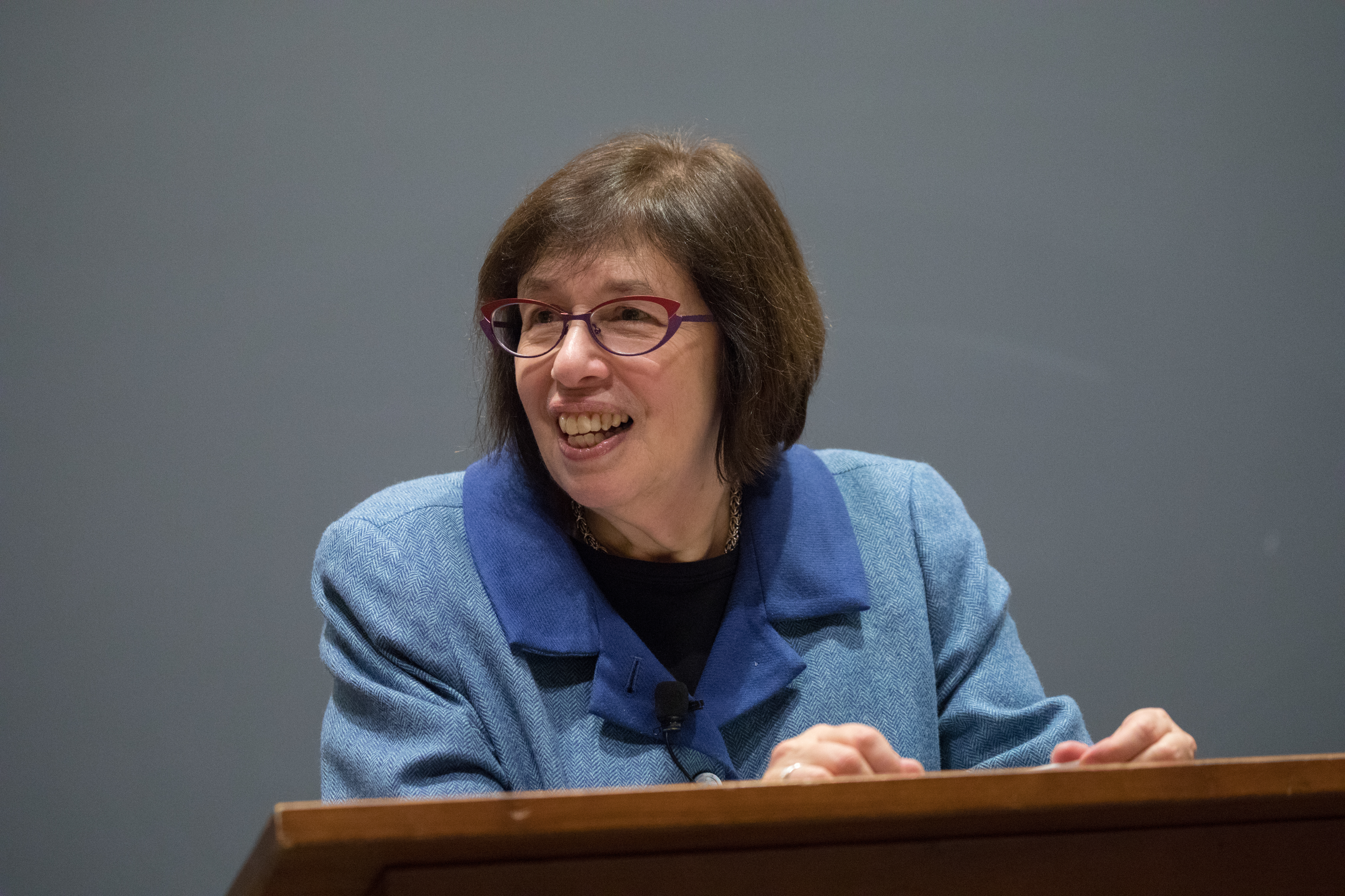 Kissel Lecture in Ethics with Linda Greenhouse